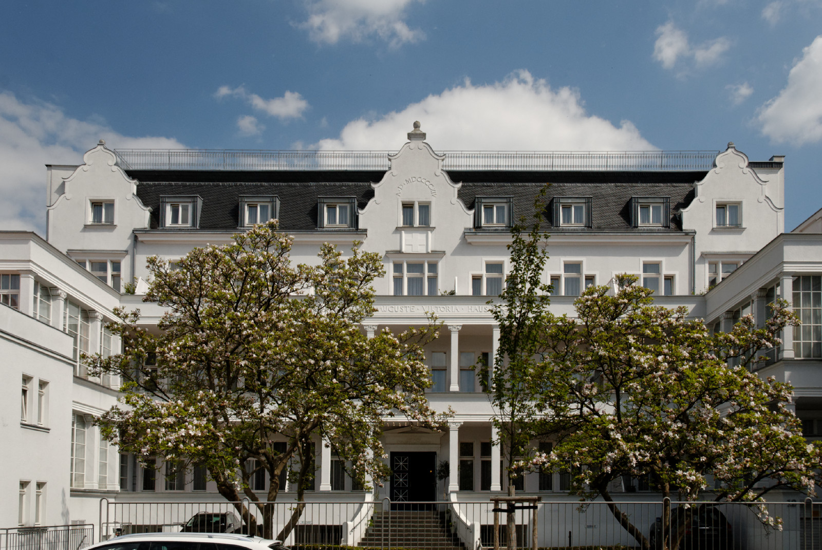 Auguste-Viktoria-Haus, Blumenthalstraße 12 in Düsseldorf-Derendorf, Germany This is a photograph of an architectural monument.